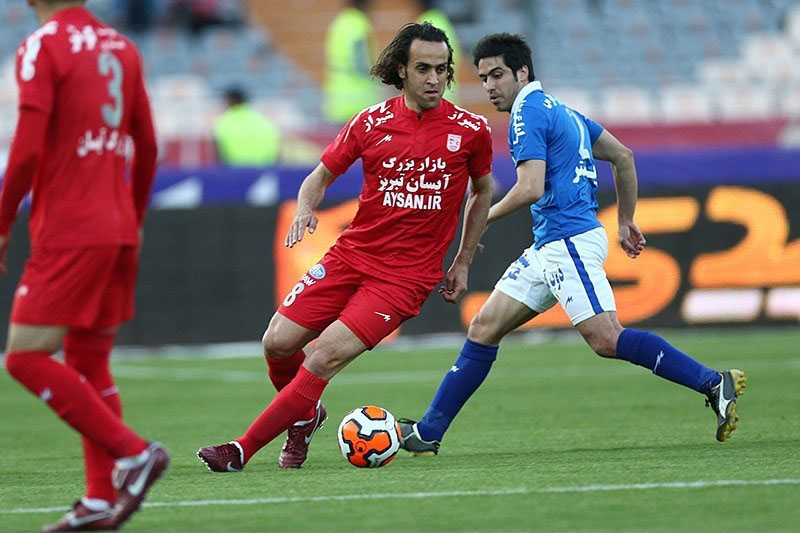 Ali Karimi maneuvering in middle of football ground, last round of 2013-2014 Persian Gulf Pro League against Esteghlal F.C.